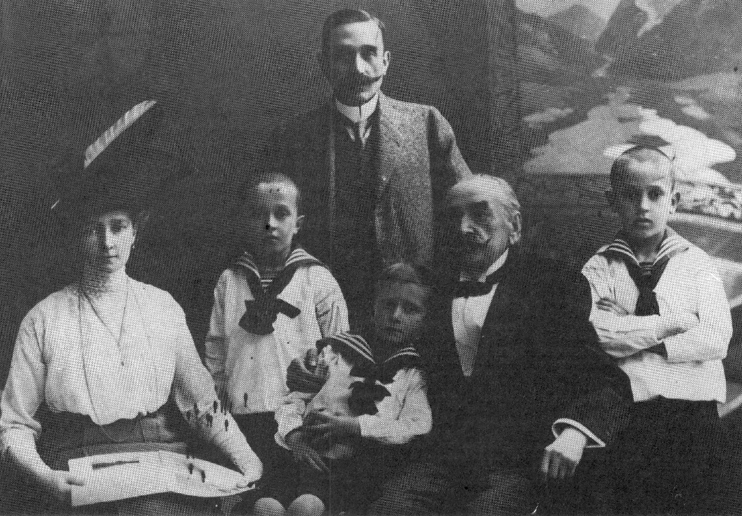 Markó Family, end of 19th century, Miskolc, Hungary